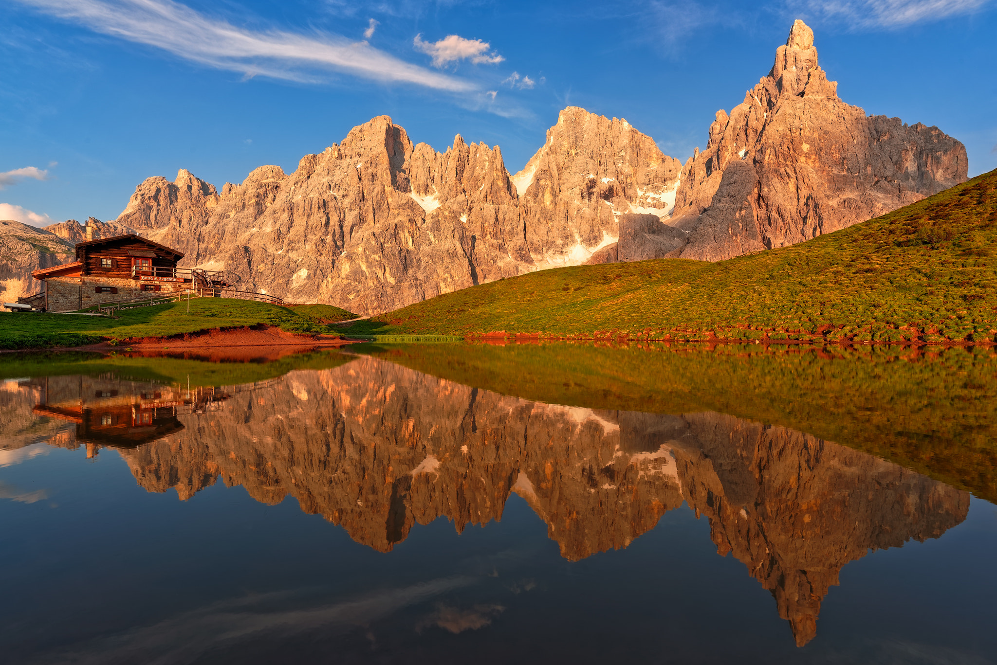 500px provided description: Baita Segantini [#sky ,#landscape ,#lake ,#reflections ,#water ,#nature ,#blue ,#sunlight ,#clouds ,#italy ,#outdoor ,#natural ,#texture ,#colors ,#peaceful ,#stone ,#mountain ,#mirror ,#dolomites ,#scenery ,#trekking ,#serenity ,#warm light ,#scenic ,#geology ,#mountain peak ,#dolomiti ,#trentino ,#pale di san martino ,#cimon della pala]